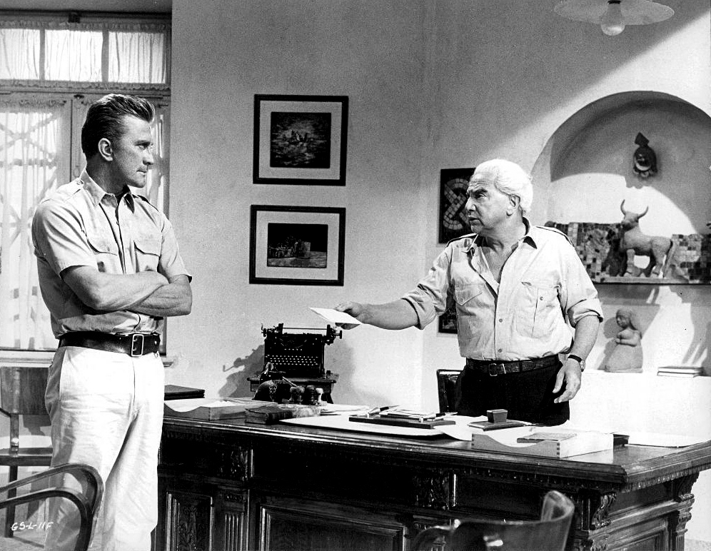 Photo of Kirk Doublas in Cast a Giant Shadow (1966)